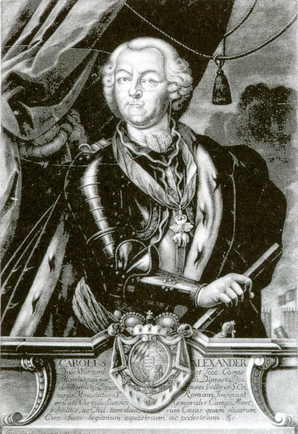 Duke Carl Alexander of Württemberg (1684-1737)